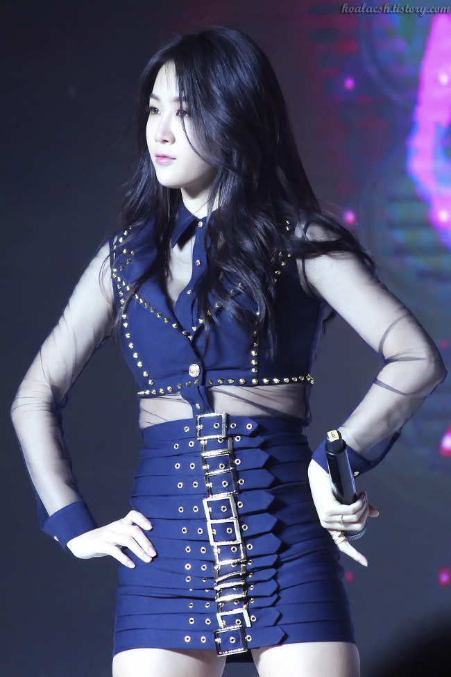 160417 D&S 20th Anniversary Ceremony